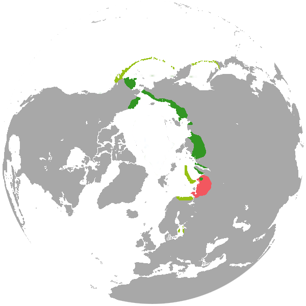 Polysticta stelleri range map. Sourse